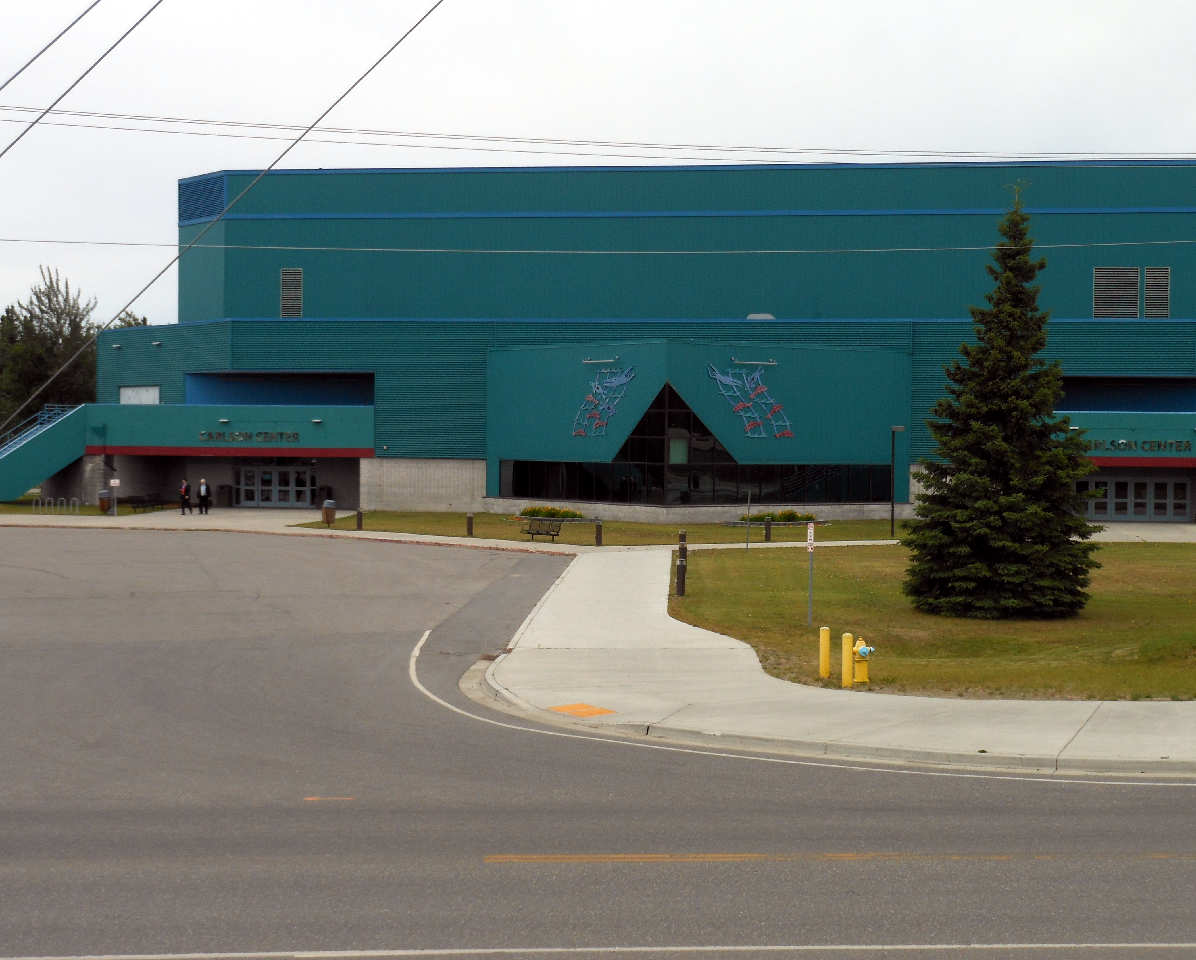 Semi-wide shot of the front entrance of the Carlson Center arena in Fairbanks, Alaska, taken from the bleachers of the baseball field across the street (not Growden Memorial Park but one of the smaller fields in between across Second Avenue).